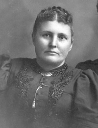 Etta Semple, Kansas freethinker.